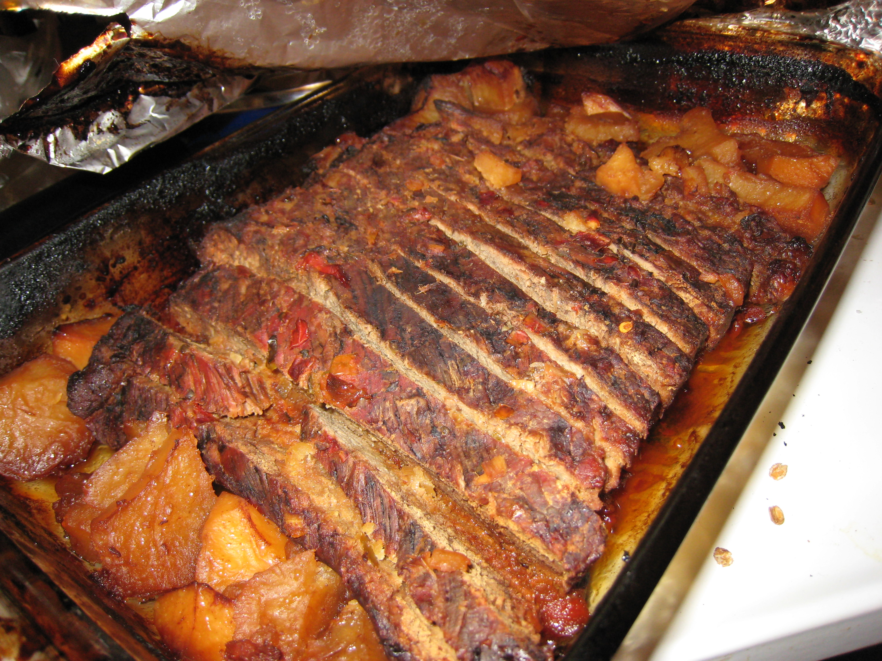 A pan of beef brisket, just out of the oven.